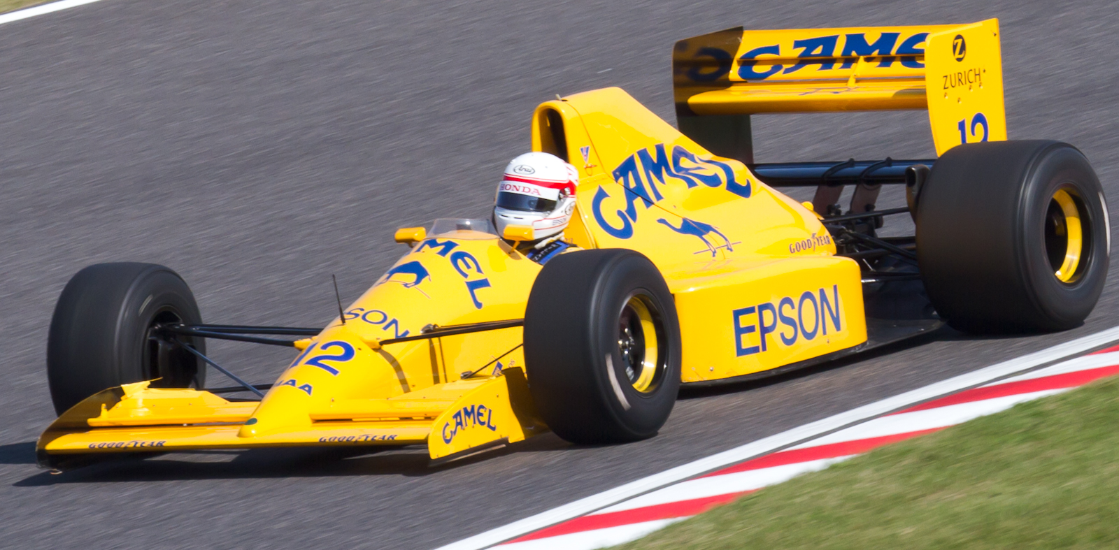 Formula One 2011 Rd.15 Japanese GP: Satoru Nakajima demonstrating the Lotus 101.